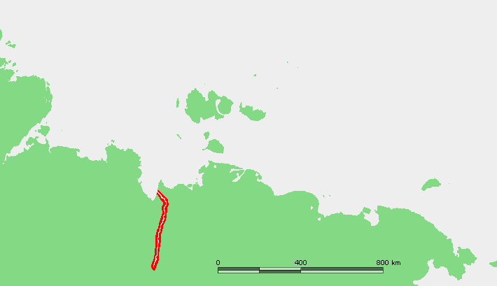 location map